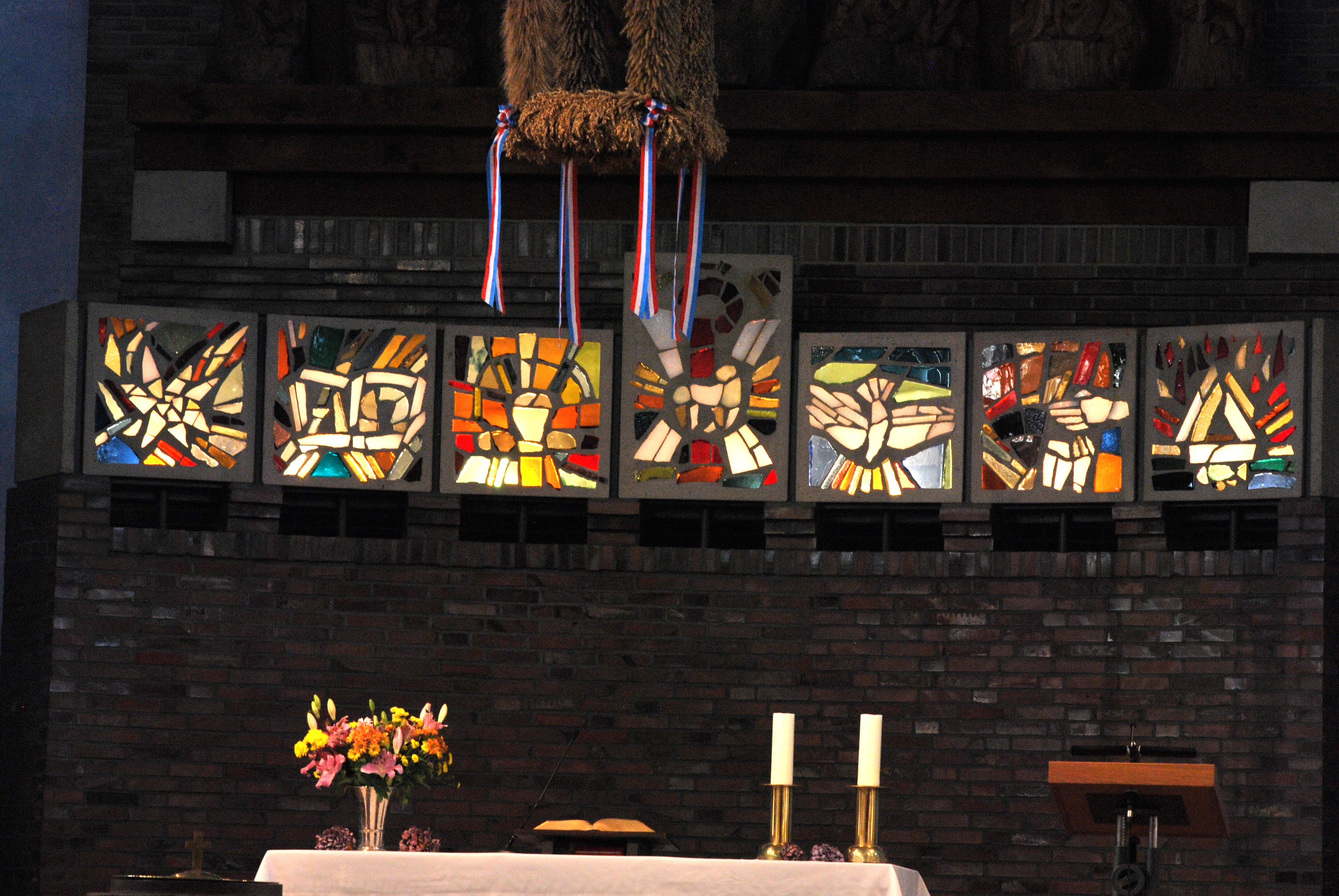 Sculpures of glass and concrete by Illo von Rauch-Wittlich under the "Altar of Revelation" by Otto Flath. Anschar-church in Neumünster. (Photo by Stefan Bemmé)